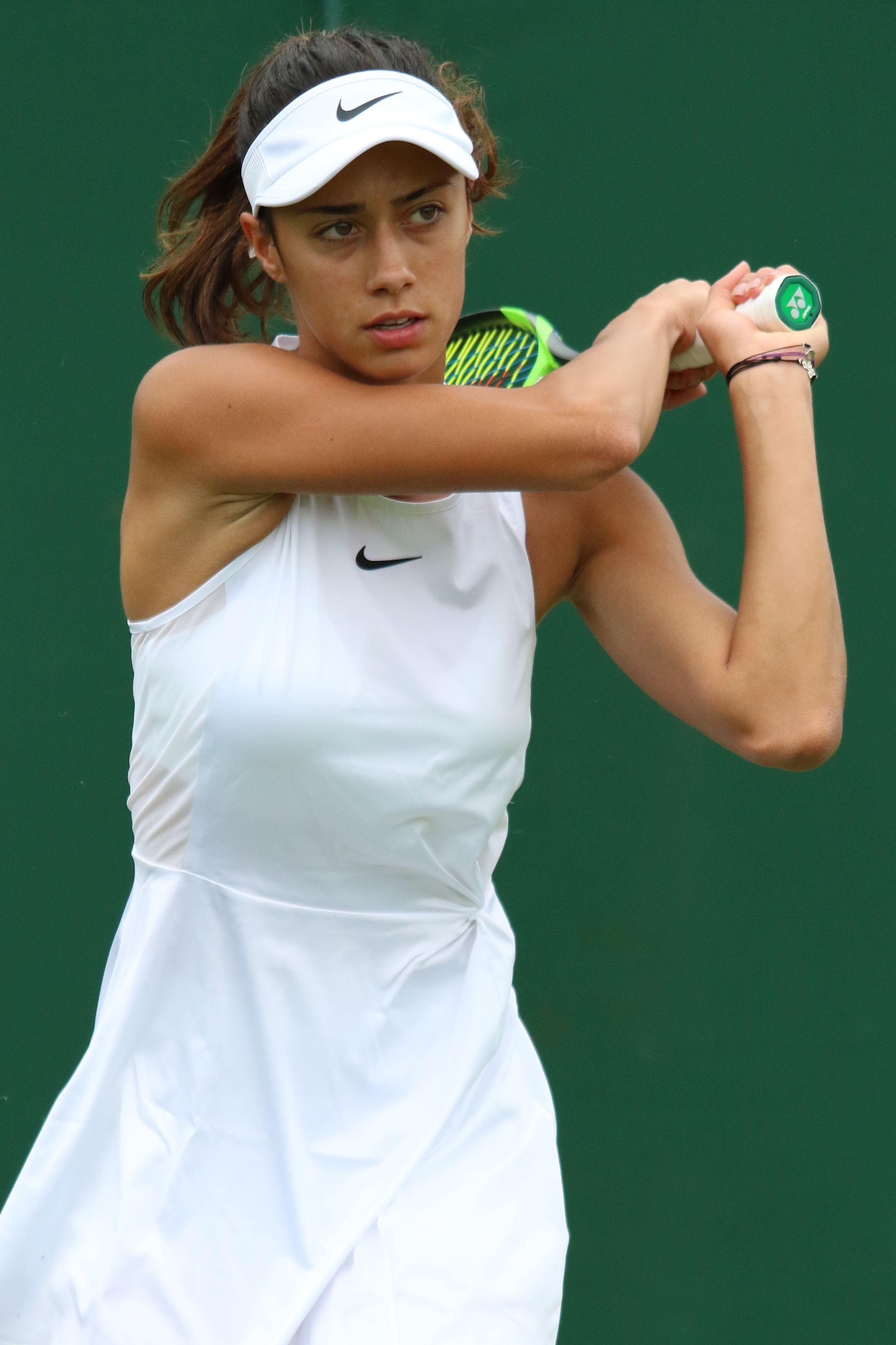 2019 Wimbledon Qualifying Tournament.